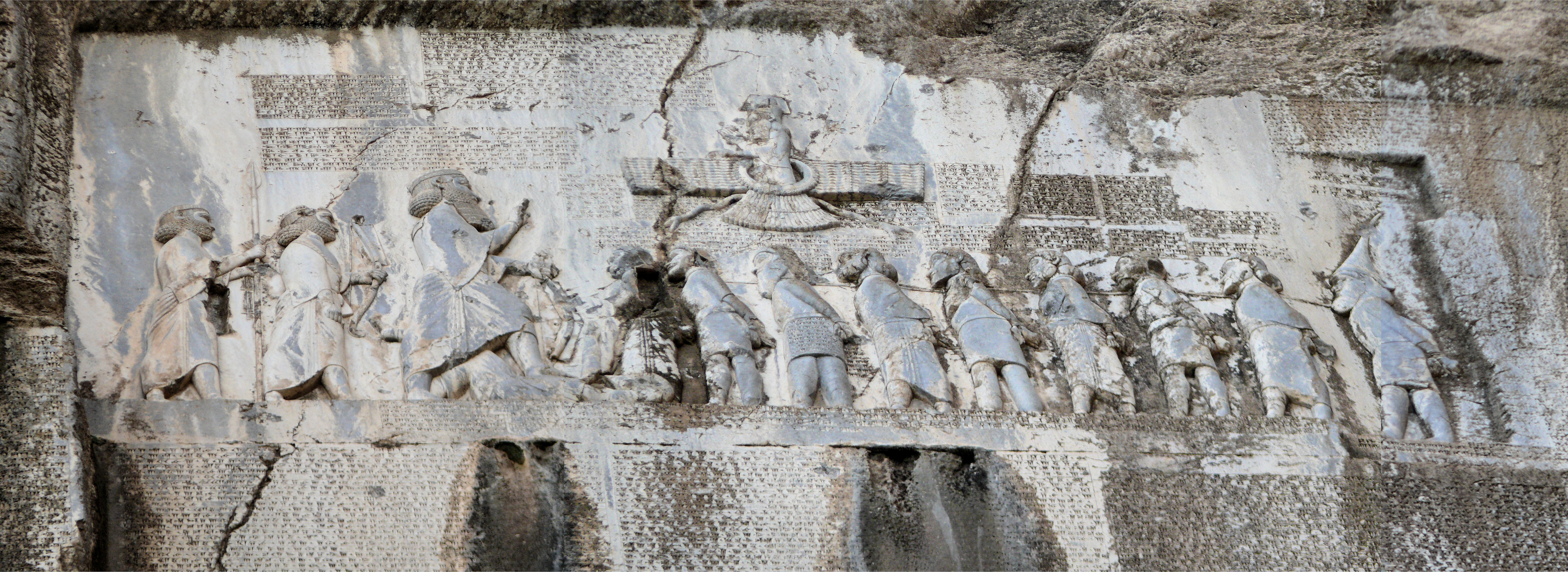 Behistun relief